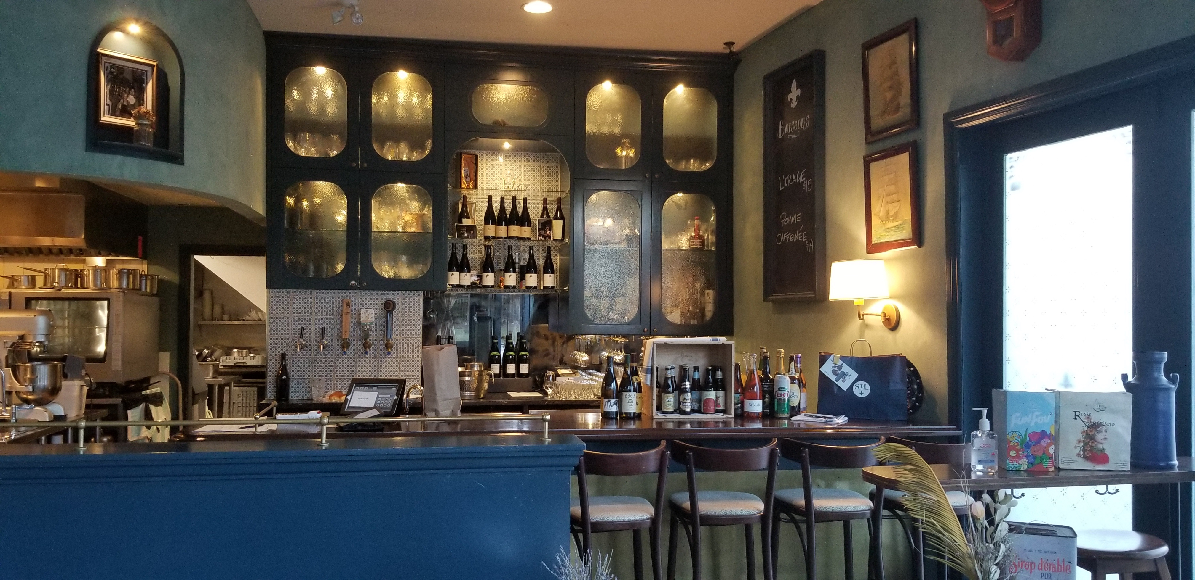 Interior of St. Lawrence restaurant in Vancouver, BC, showing the bar to the centre and part of the kitchen on the left. Several wooden chairs are visible at the bar. A chalkboard mounted on the wall to the right of the bar has daily specials written in chalk. The restaurant was closed for dine-in at the time of the photograph, so there are no patrons inside. To the bottom right corner, a bottle of hand sanitizer has been left out for take-out patrons.